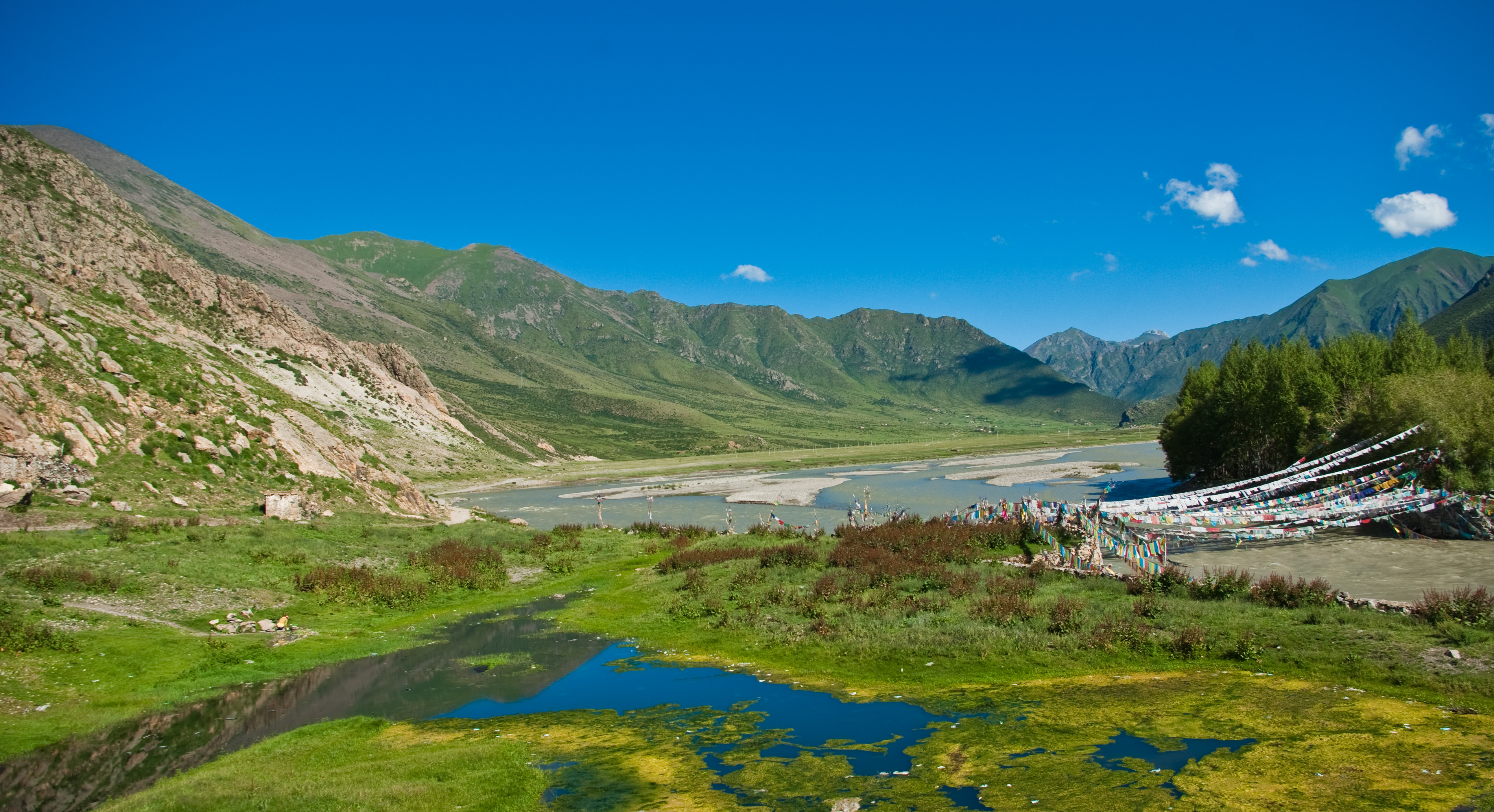 Landscapes of Tibet (near the Reting monastery)